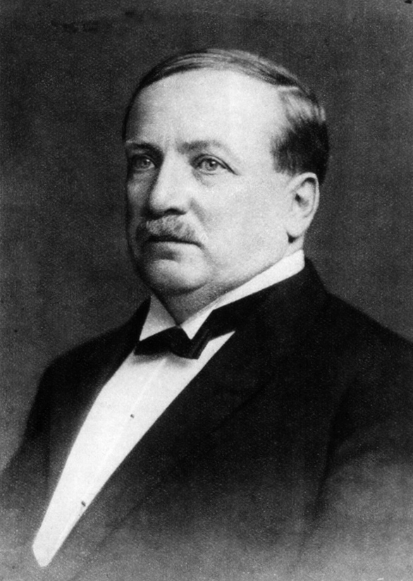 František Borový (1874 – 1936) was Czech publisher.